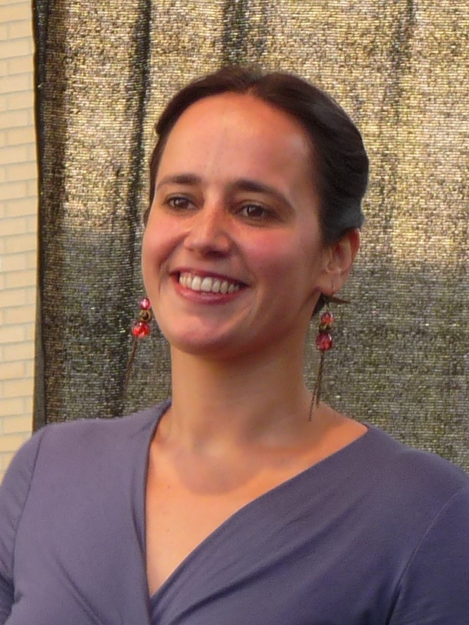 Szilvia Bognár (1977– ) Hungarian folk-singer, on the Day of Hungarian Song in 2010.